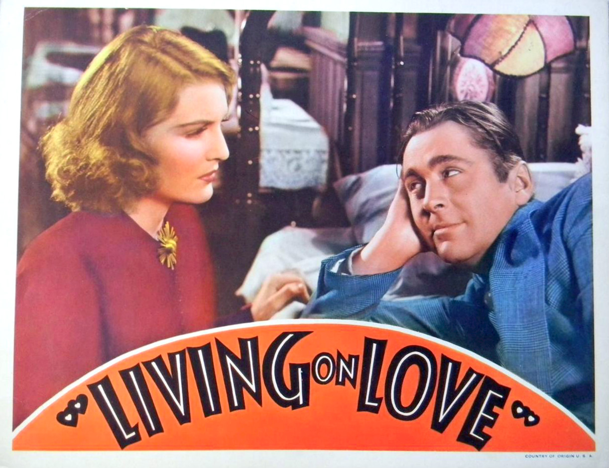 Poster for the 1937 film Living on Love. The item has no copyright marks on it as can be seen at links and original upload. At bottom right is Country of Origin USA.